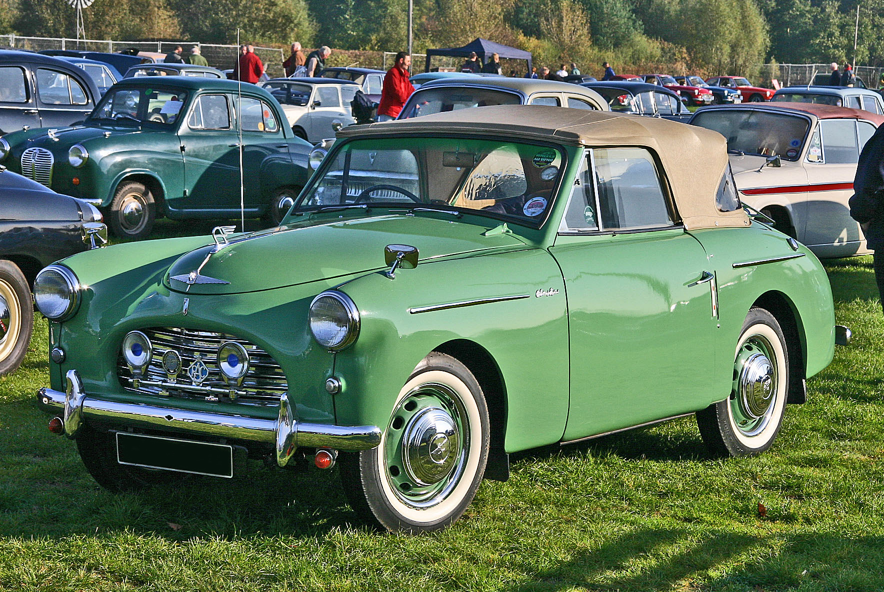 Austin A40 Sports began as a partnership with Jensen who wanted to build a fibreglass-bodied sports car on the chassis of an Austin A70. Lord Austin agreed to the use of the A70 in return for Jensen building a smaller car for Austin on the A40 chassis, and thus was born the first Jensen Interceptor and the Austin A40 Sports.